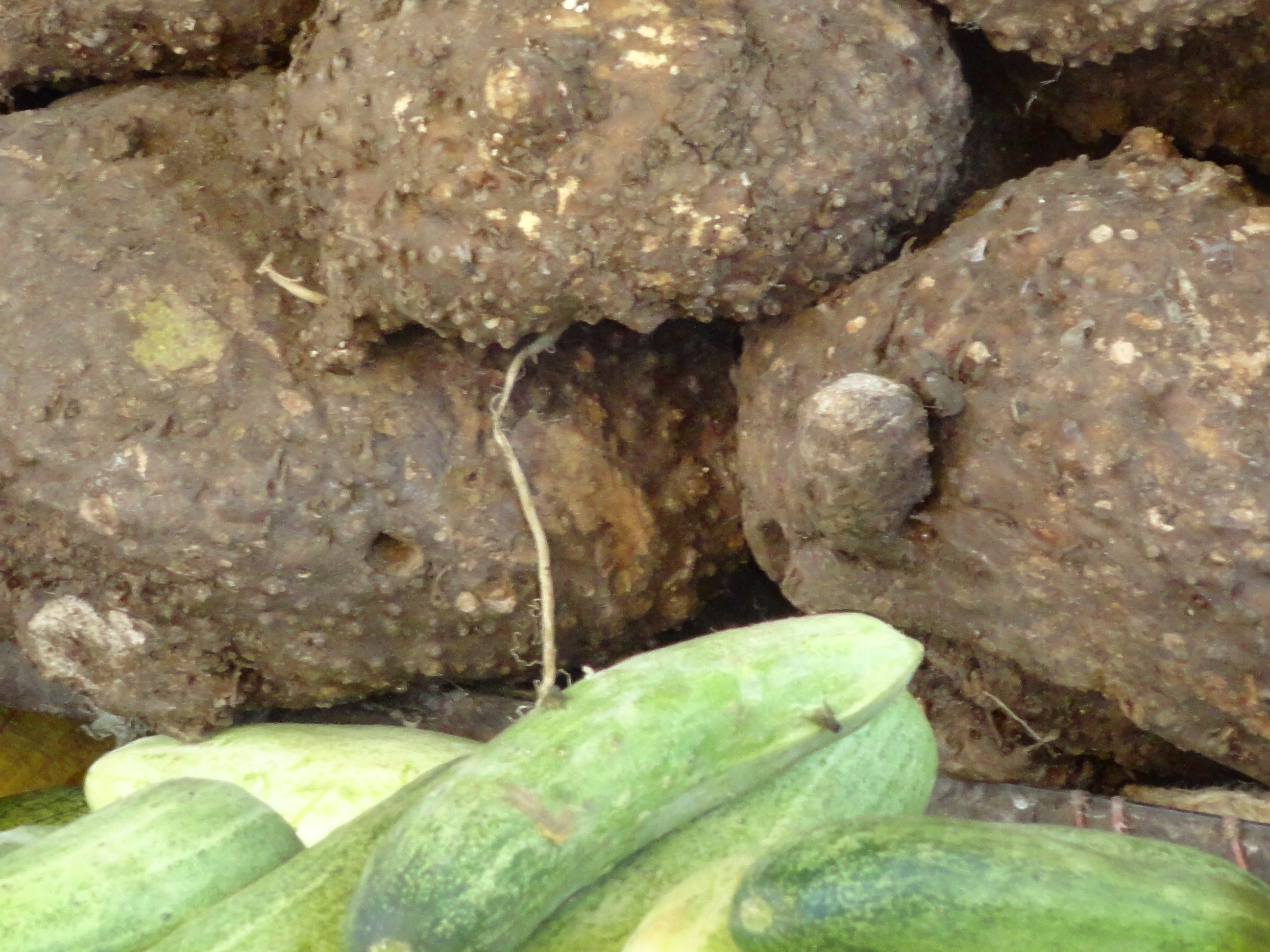 kamda